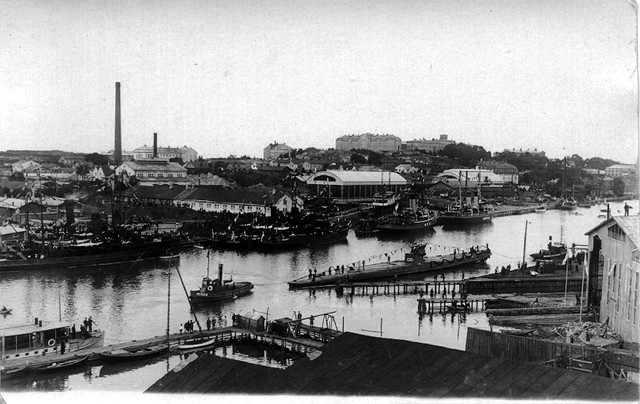 Finnish submarine Vetehinen shortly after her launch.